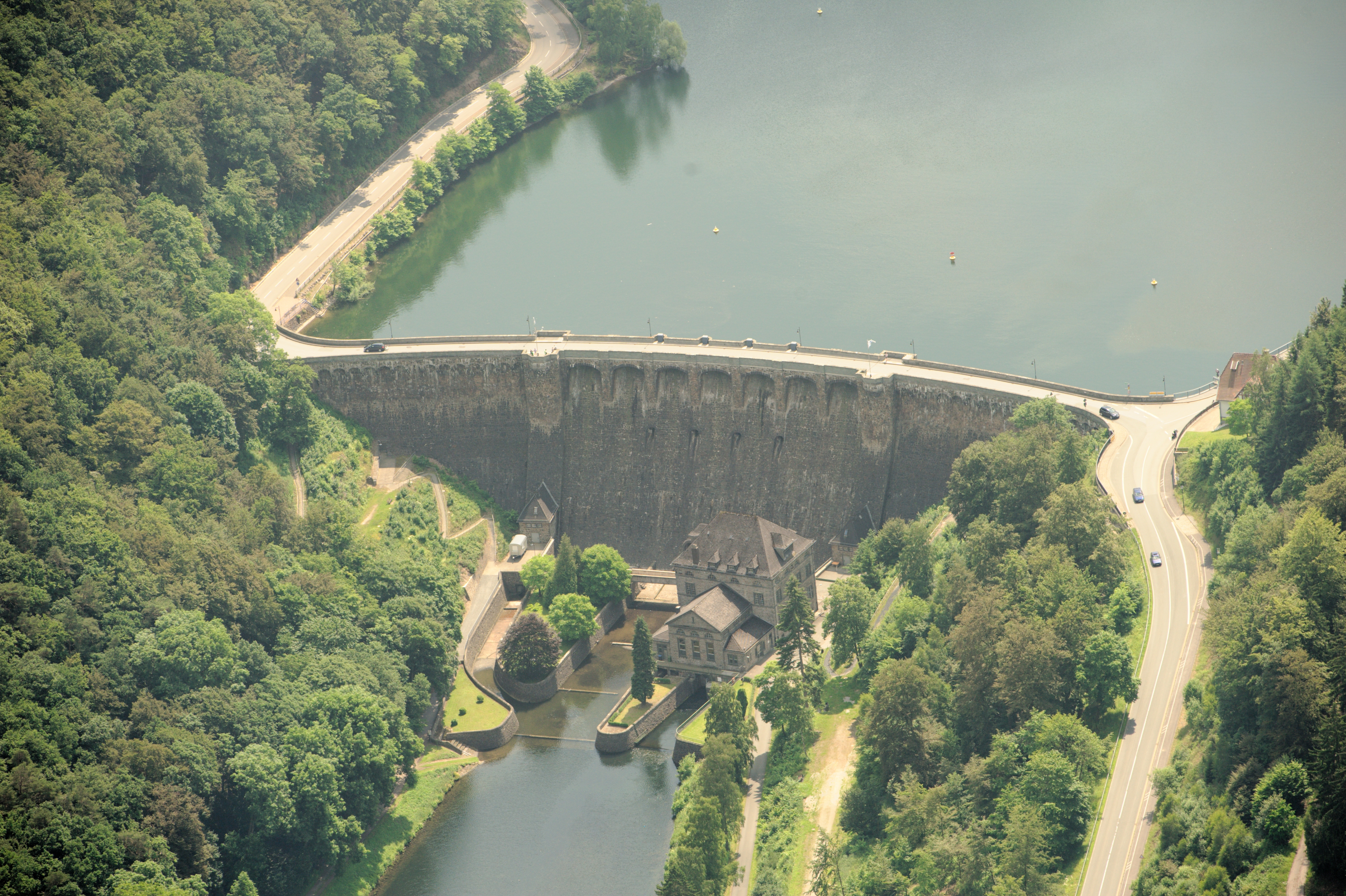 Fotoflug Sauerland-Ost; Staumauer Diemelsee The making of this document was supported by the Community-Budget of Wikimedia Germany.